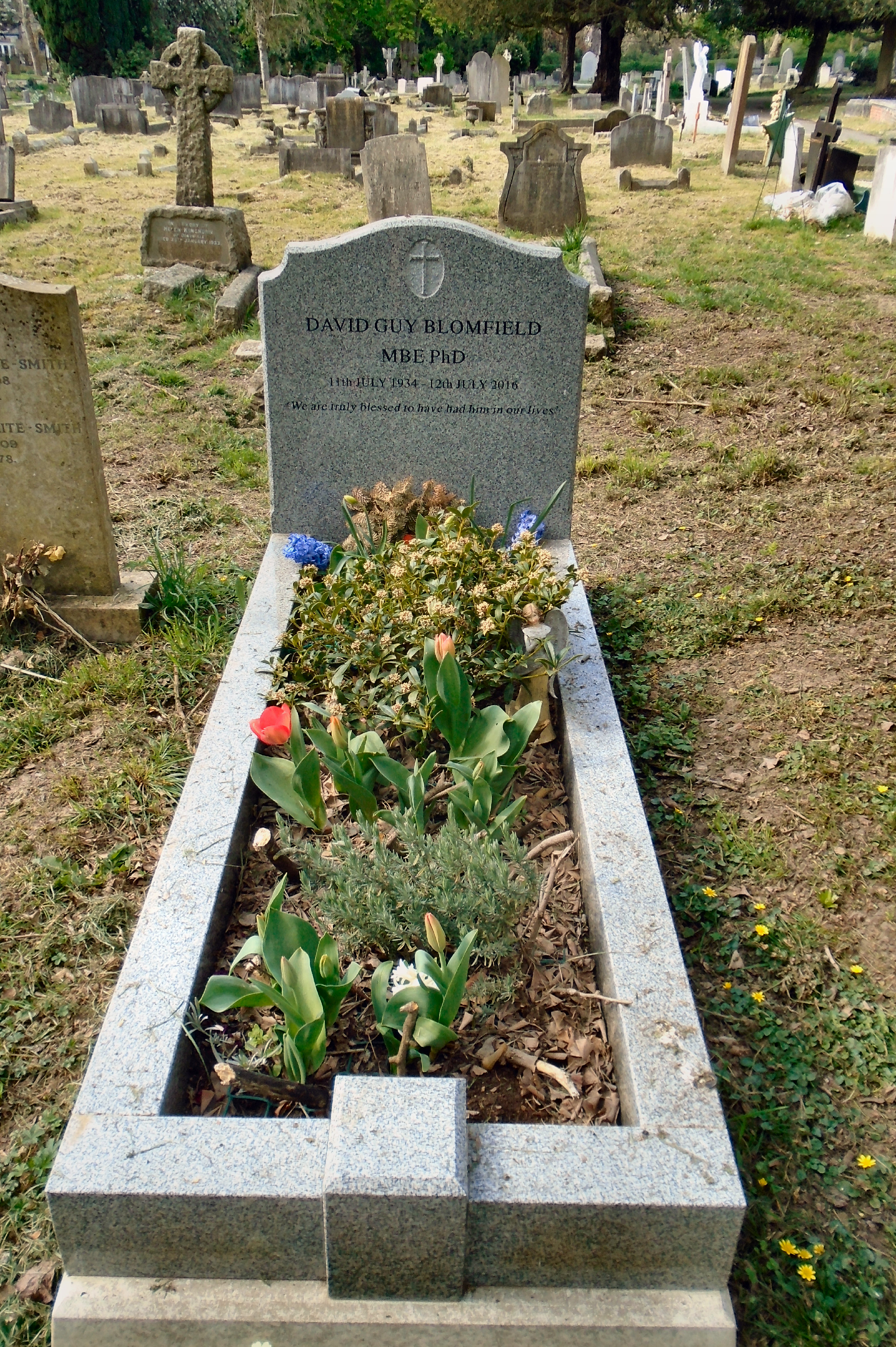 Richmond Cemetery, headstone of David Guy Blomfield MBE (1934–2016)